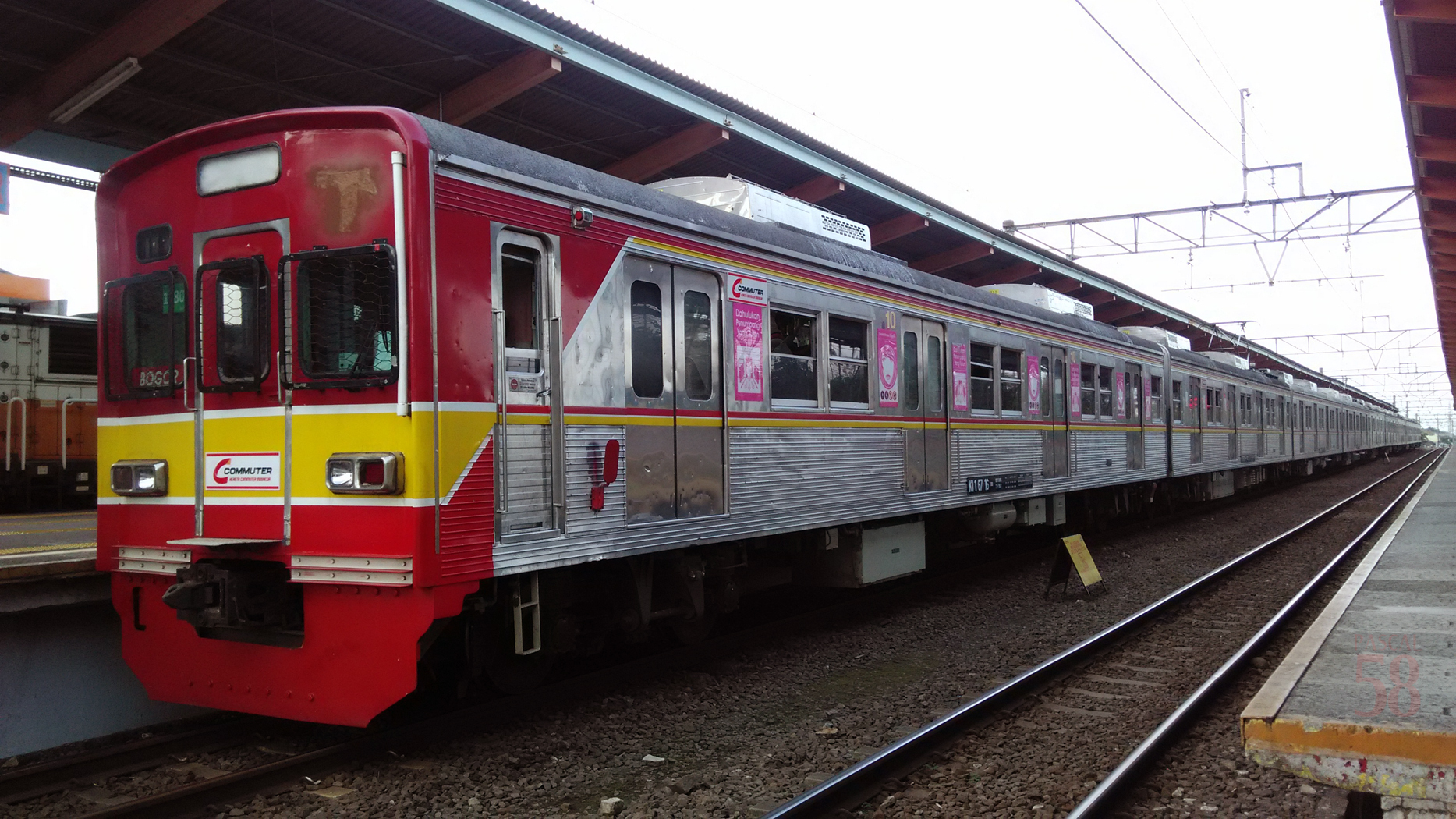 Kereta Commuter Indonesia's 10-car 1000 series EMU set 1080 with trainset code on its windshield in Depok Station, January 2018.